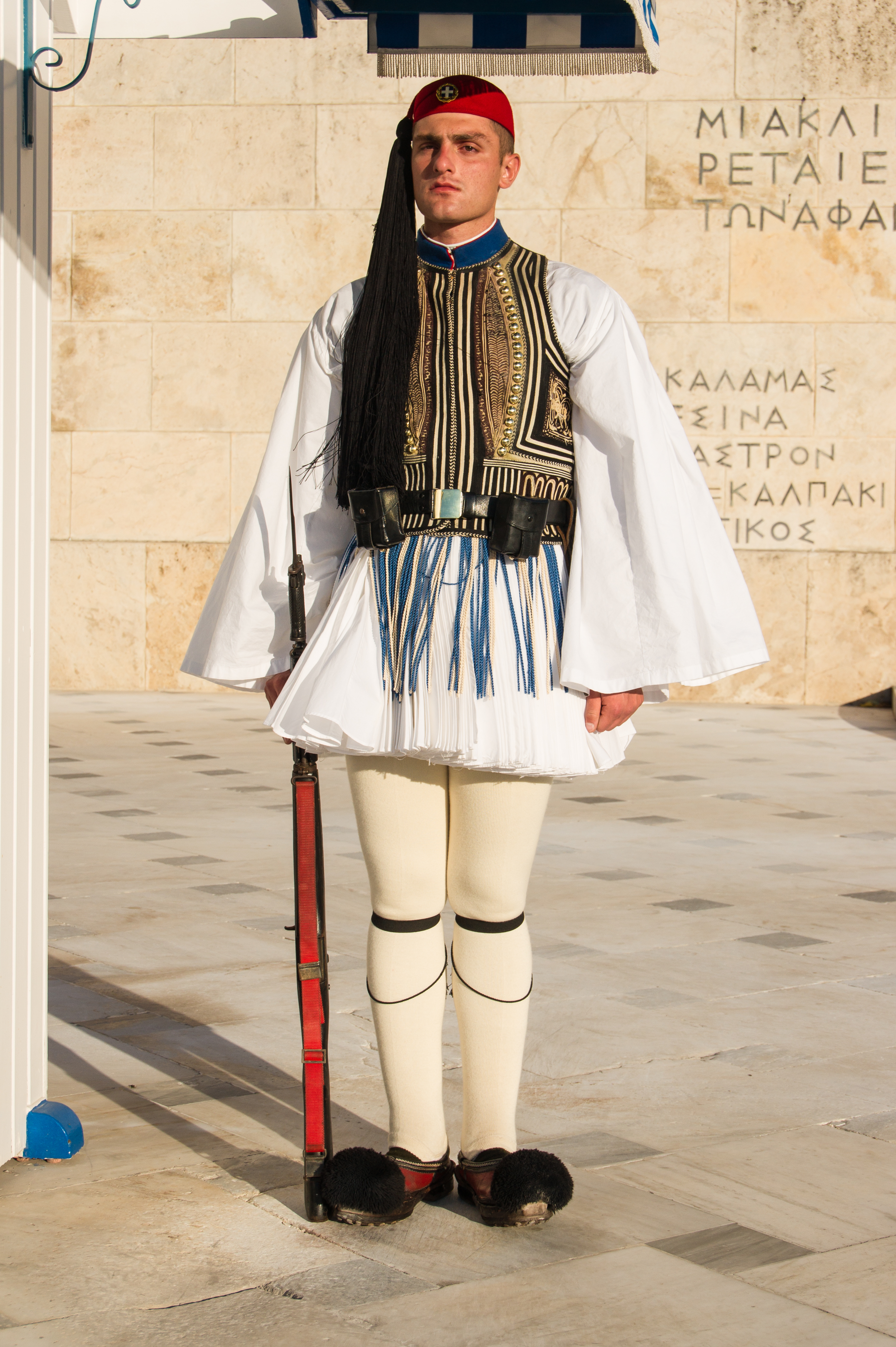 Evzone in ceremonial clothing, Tomb of the Unknown Soldier, Athens, Greece